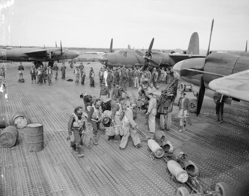 Royal Air Force- Italy,the Balkans and South-east Europe, 1942-1945. SAAF and RAF crews of No. 25 Squadron SAAF gather by their Martin Marauders in a dispersal at Biferno, Italy, prior to taking off on a daylight bombing sortie. Members of the South African Native Miltary Corps can be seen moving 250-lb GP bombs from the bomb train in the foreground.